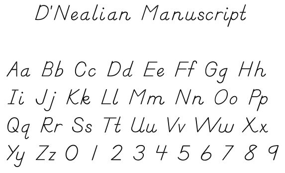 An example of D'Nealian manuscript (also called print or block) writing